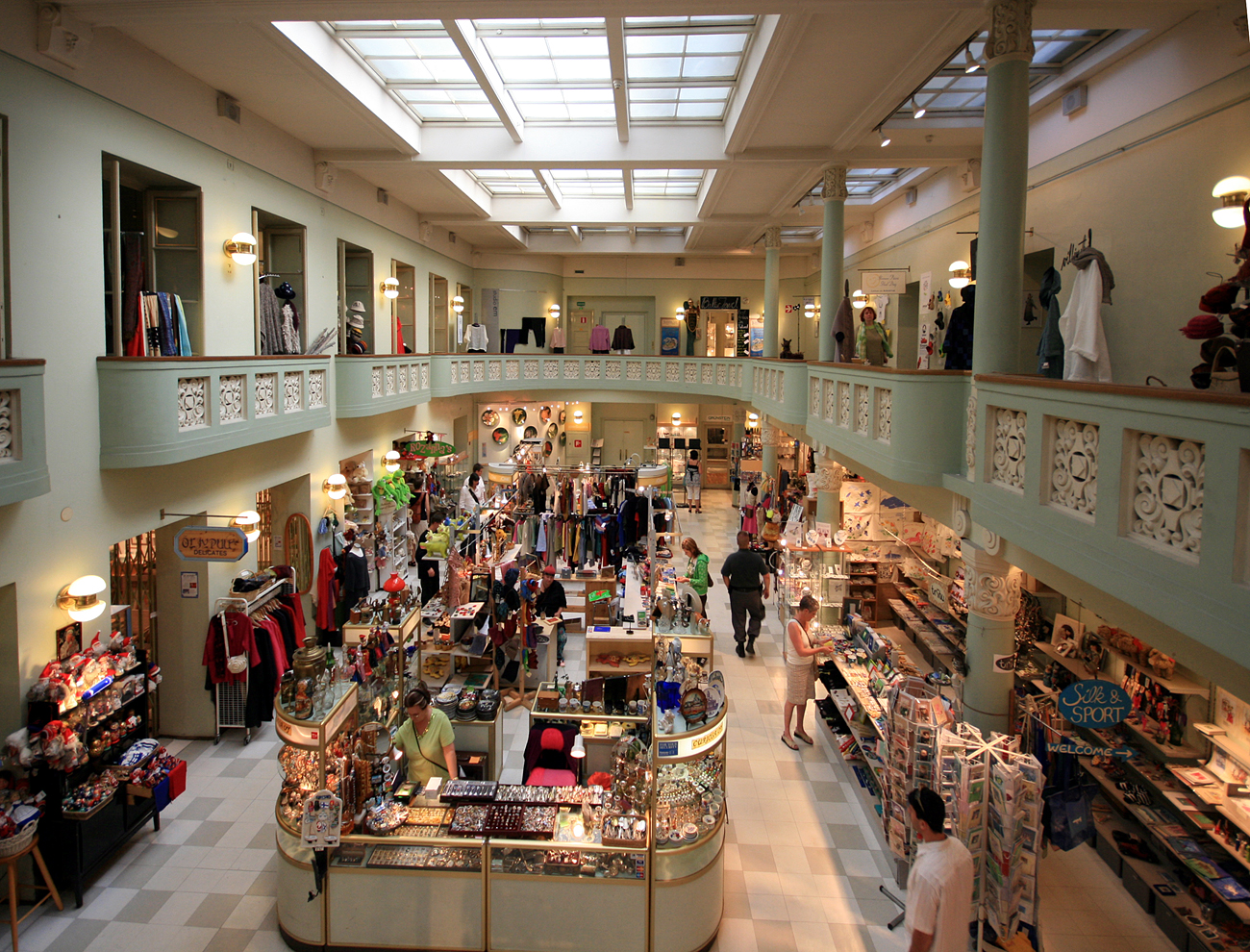 Interior of the Kiseleff House, Unioninkatu 27, Helsinki.